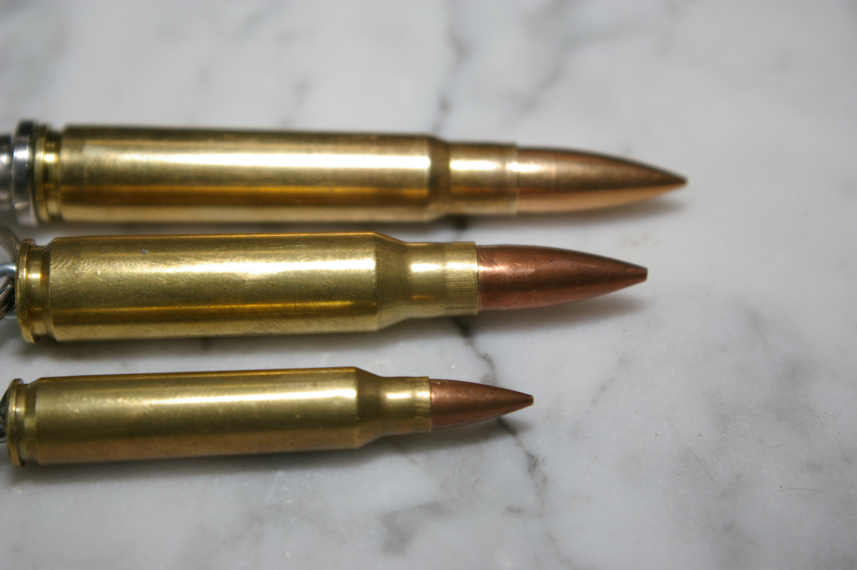 German ordnance. 8 × 57 mm IS Mauser, 7.62 × 51 mm NATO, 5.56 × 45 mm NATO (from top to bottom).